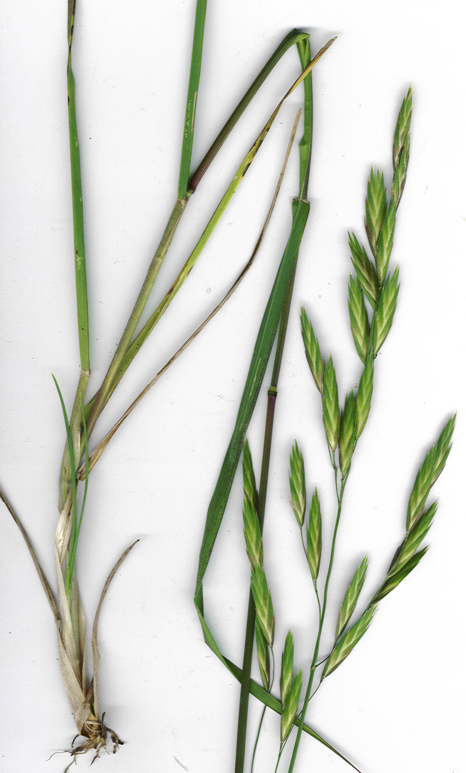 Bromus catharticus (plant). Location: Maui, near lower housing Haleakala National Park